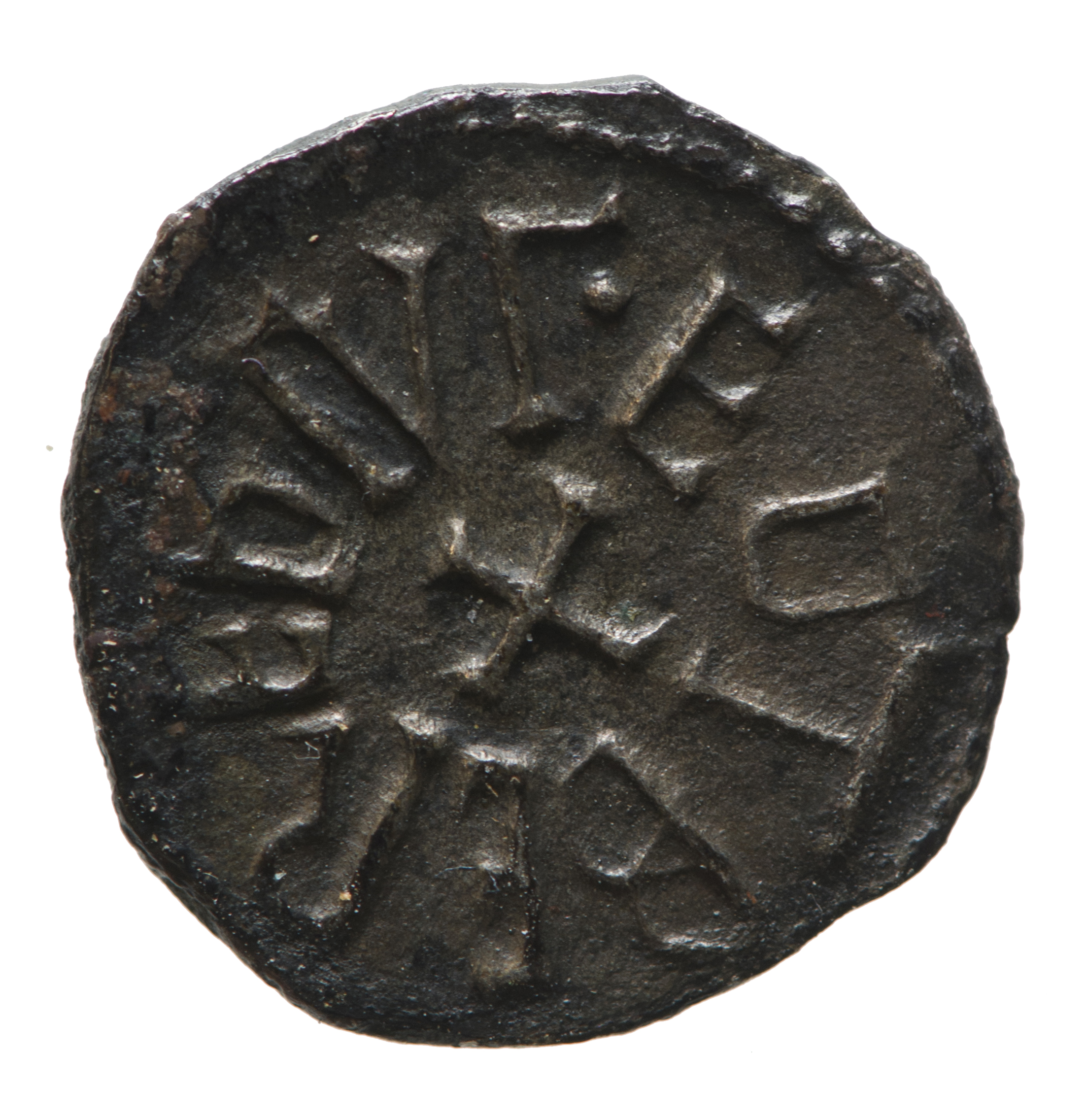 Obverse (front) of a silver sceatta of Eadberht_of_Northumbria small cross